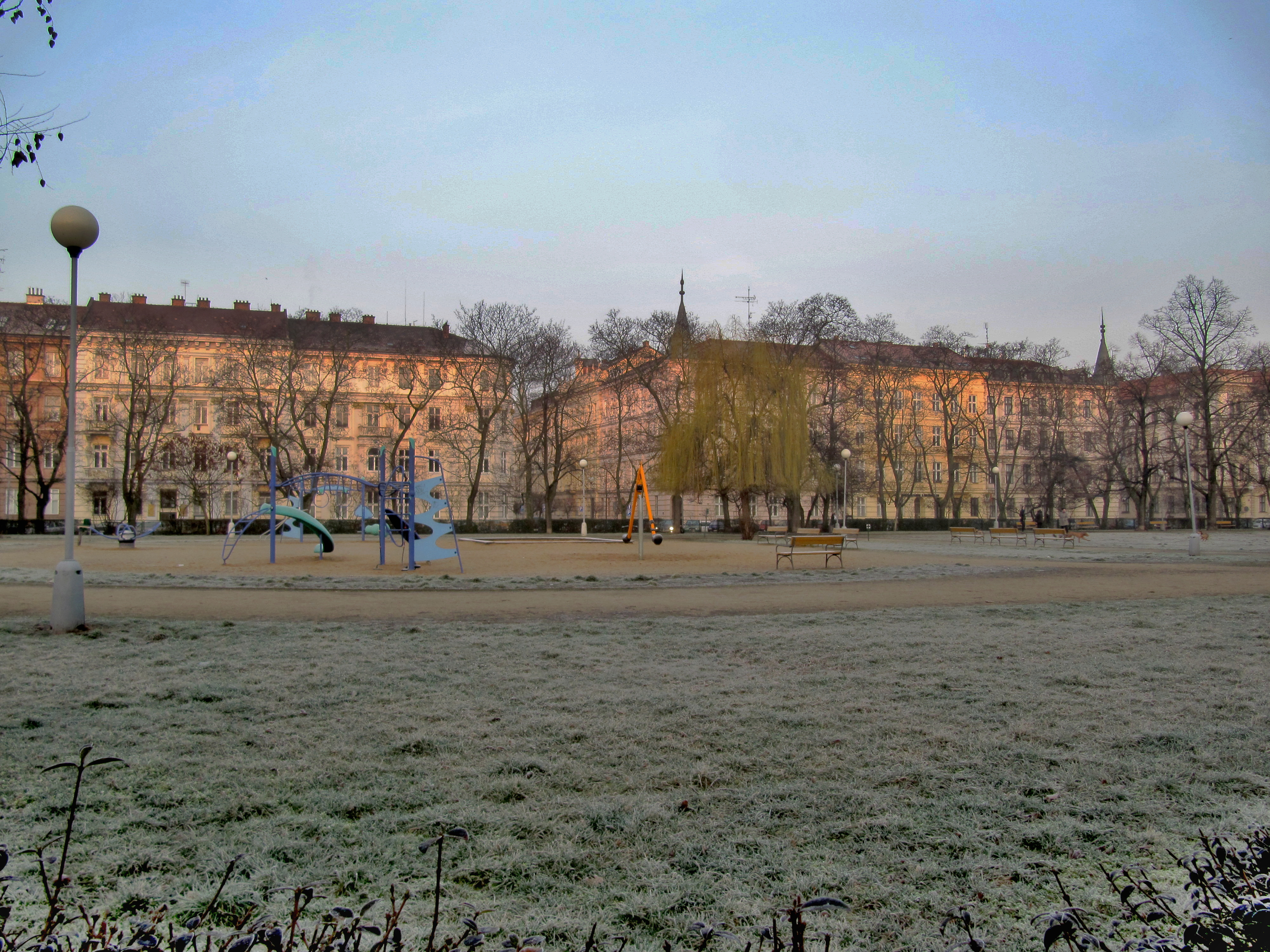 Brno, Czech Republic. 28. října Square.